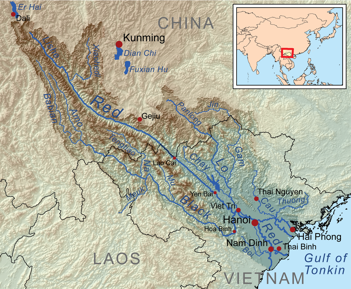 Map showing the Red River drainage basin.